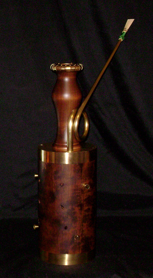 Reproduction of a Baroque Rackett, manufactured by Moeck Musikinstrumente+Verlag shortly before they closed their Historical Woodwind Instruments department in late 2008.